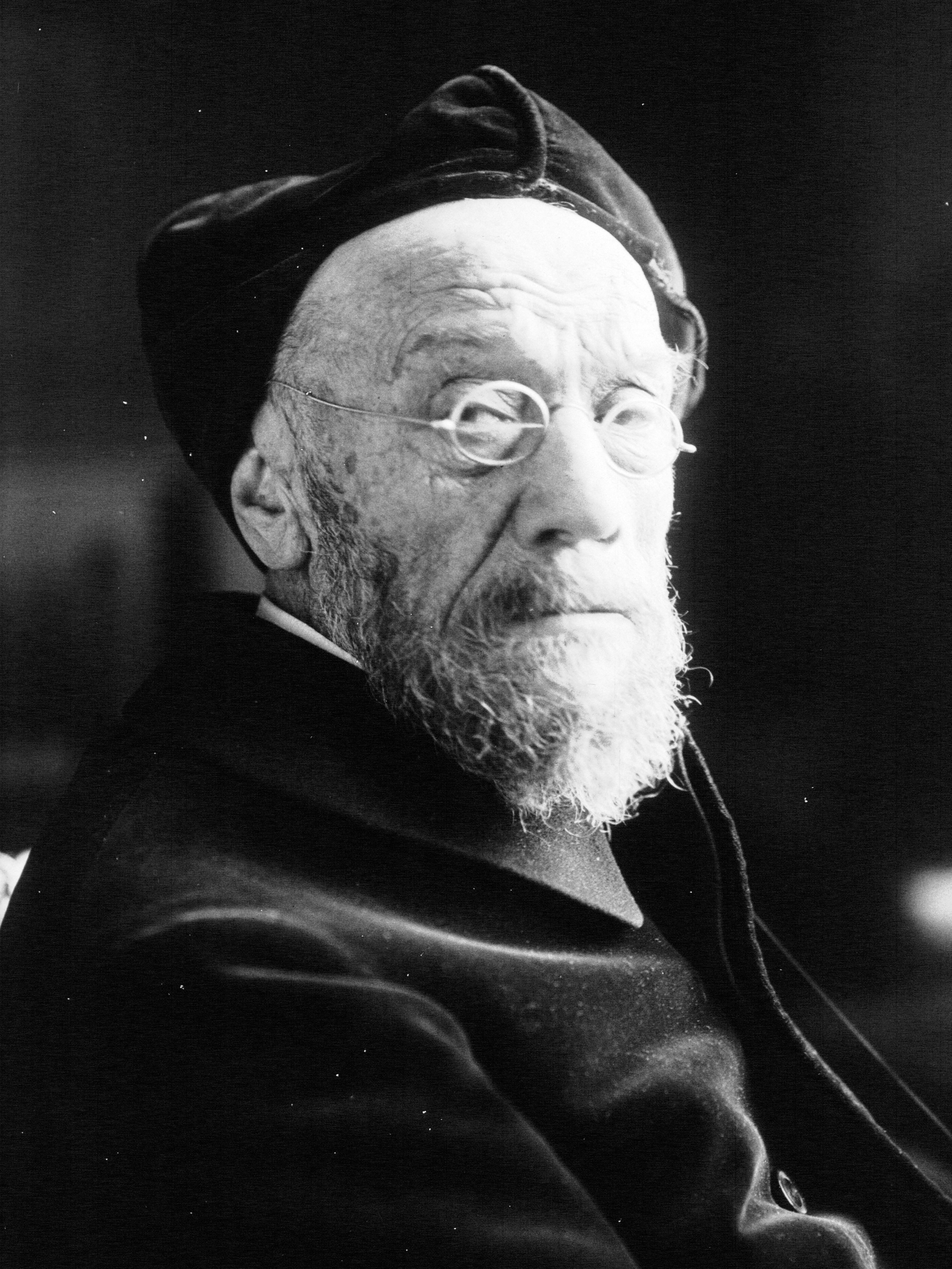 French painter Jean-Paul Laurens (1938-1951).